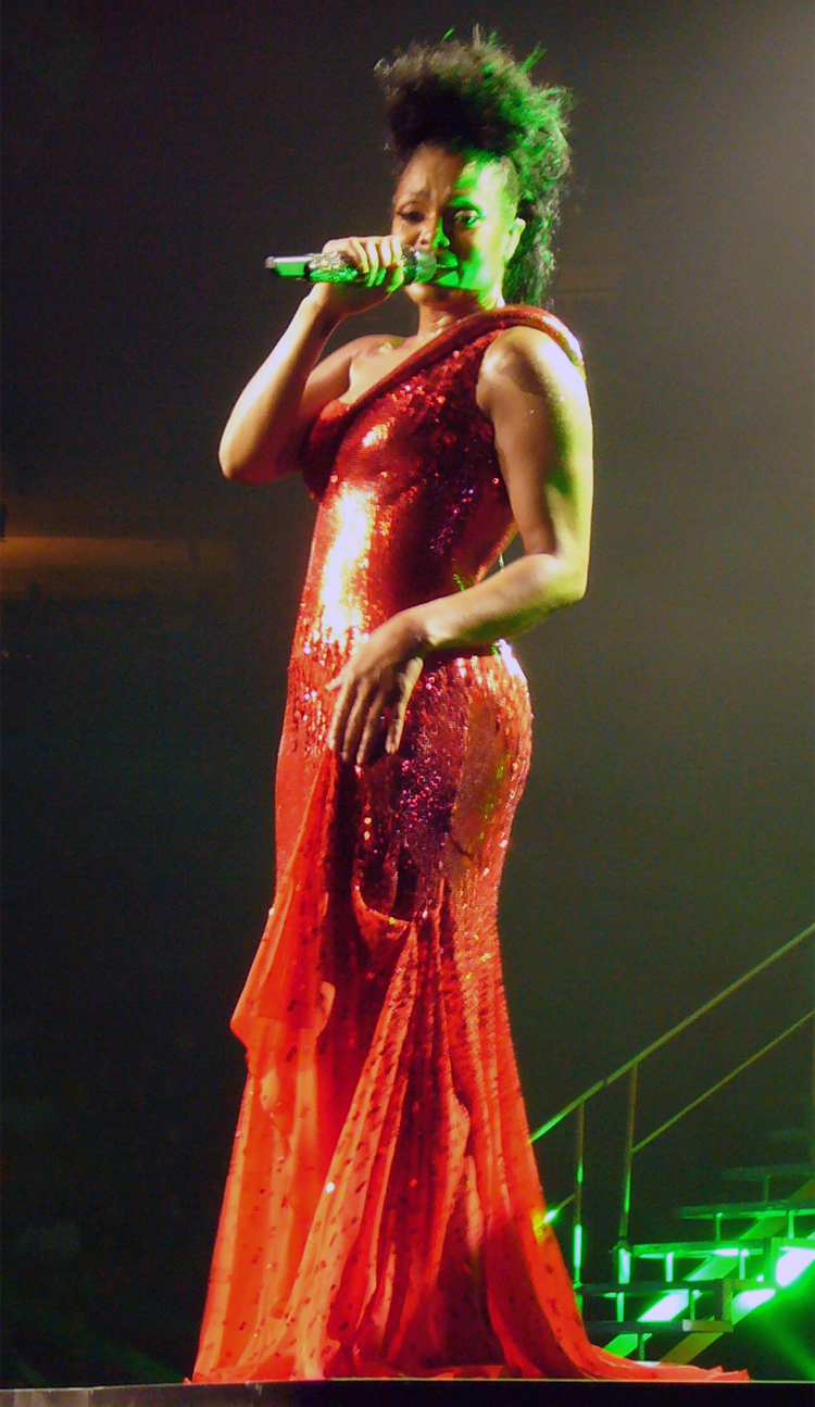 Photo of Janet Jackson performing during her Rock Witchu Tour in 2008. Photo has been edited (colour and cropped) by User:PearlPop